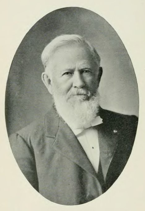 Portrait in History of Iowa From the Earliest Times to the Beginning of the Twentieth Century